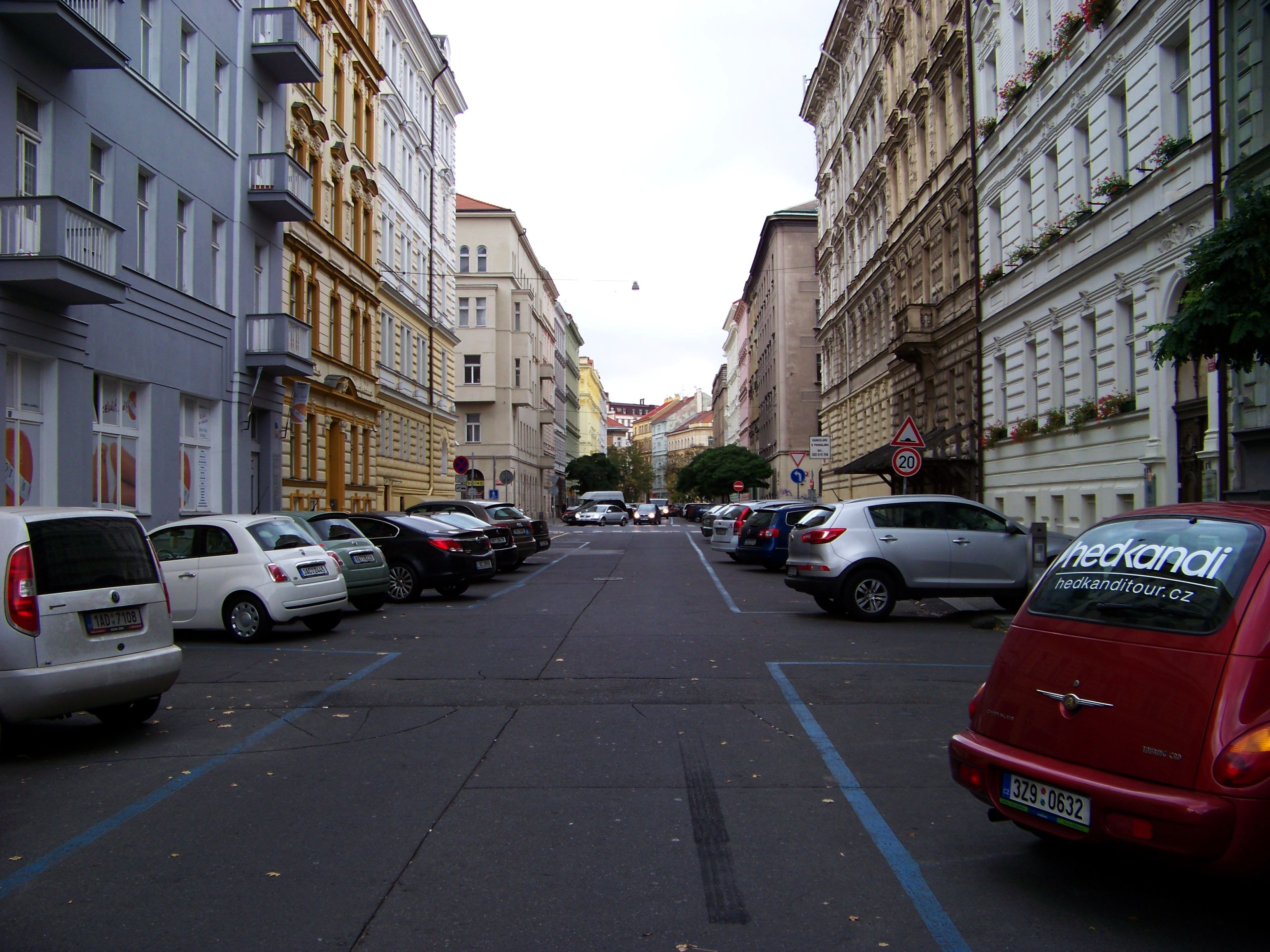 Prague-New Town, the Czech Republic. Wenzigova street. - OpenStreetMap(Info)